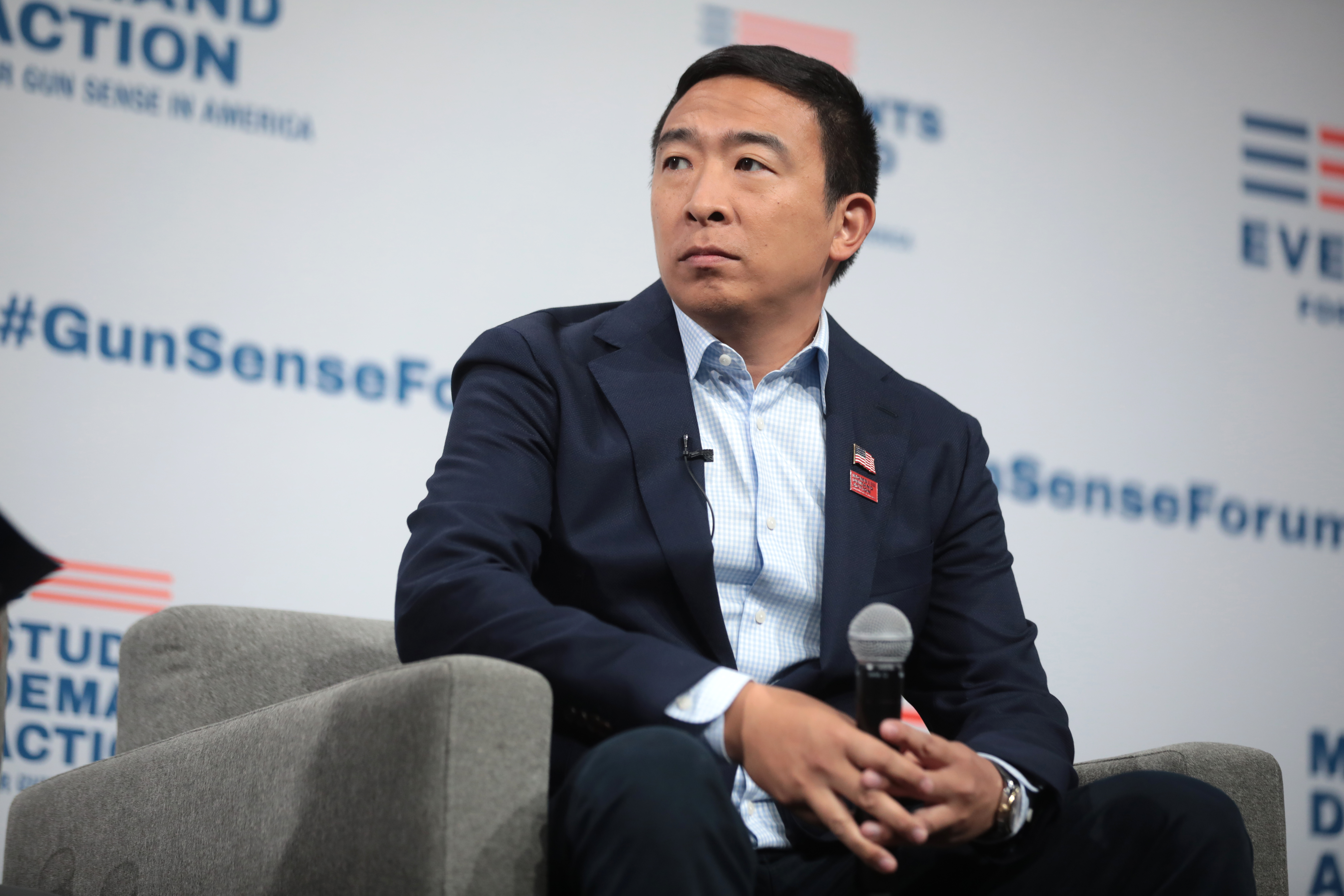 Andrew Yang speaking with attendees at the Presidential Gun Sense Forum hosted by Everytown for Gun Safety and Moms Demand Action at the Iowa Events Center in Des Moines, Iowa.